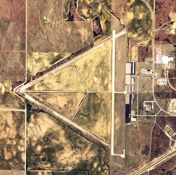 USGS digital orthophoto of West Woodward Airport in Oklahoma